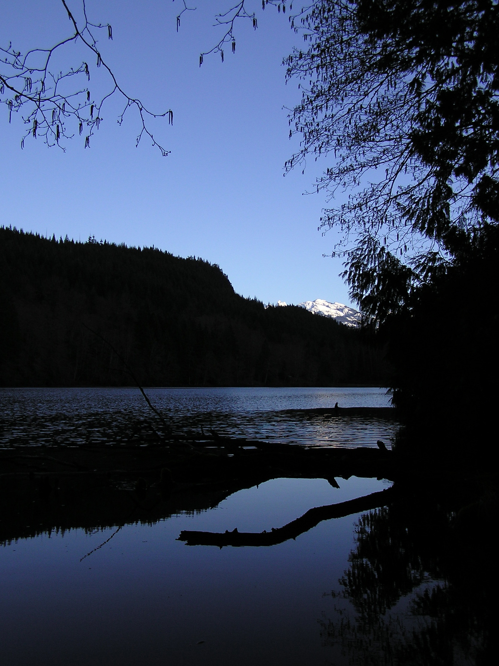 Alice Lake, near Squamish, British Columbia, at twilight.